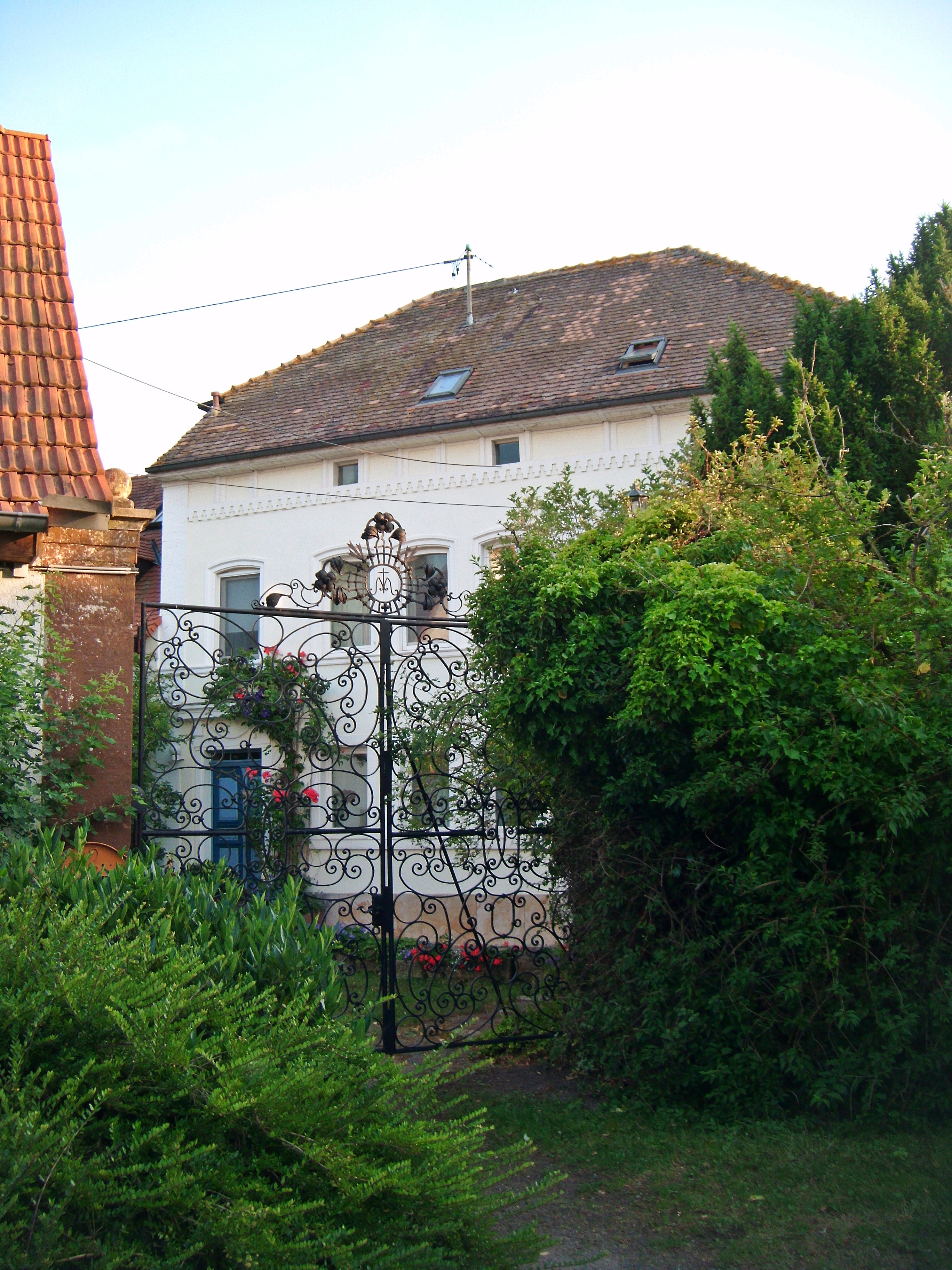 Eyersheimer Mühle, Hauptgebäude